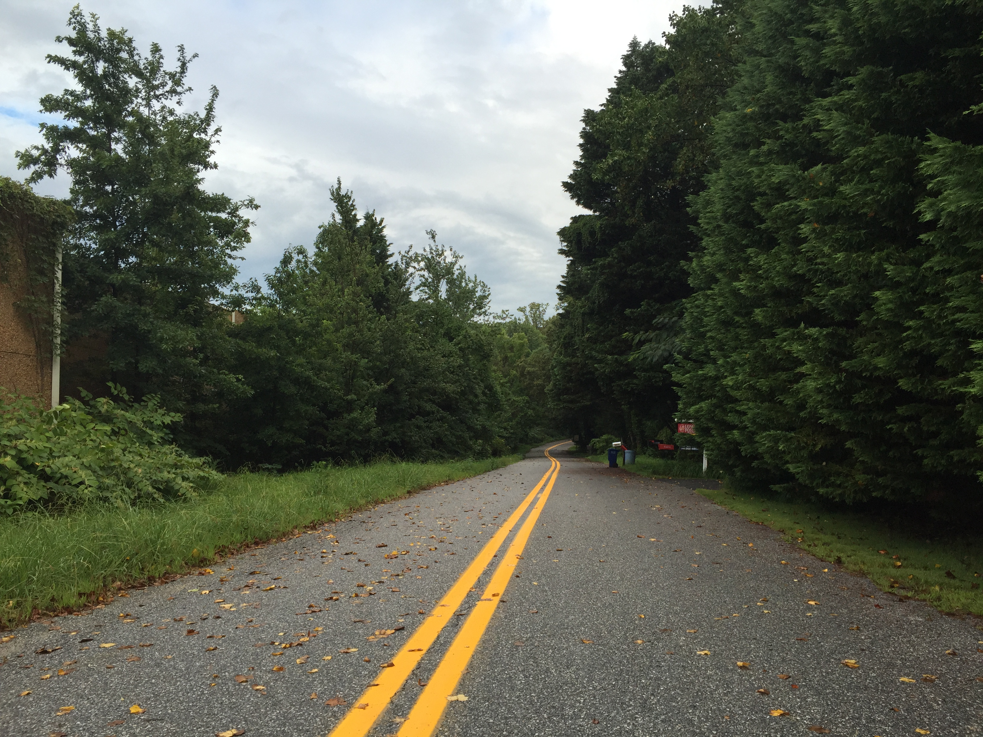 View west from the east end of Maryland State Route 785 (Acorn Drive) in Parole, Anne Arundel County, Maryland